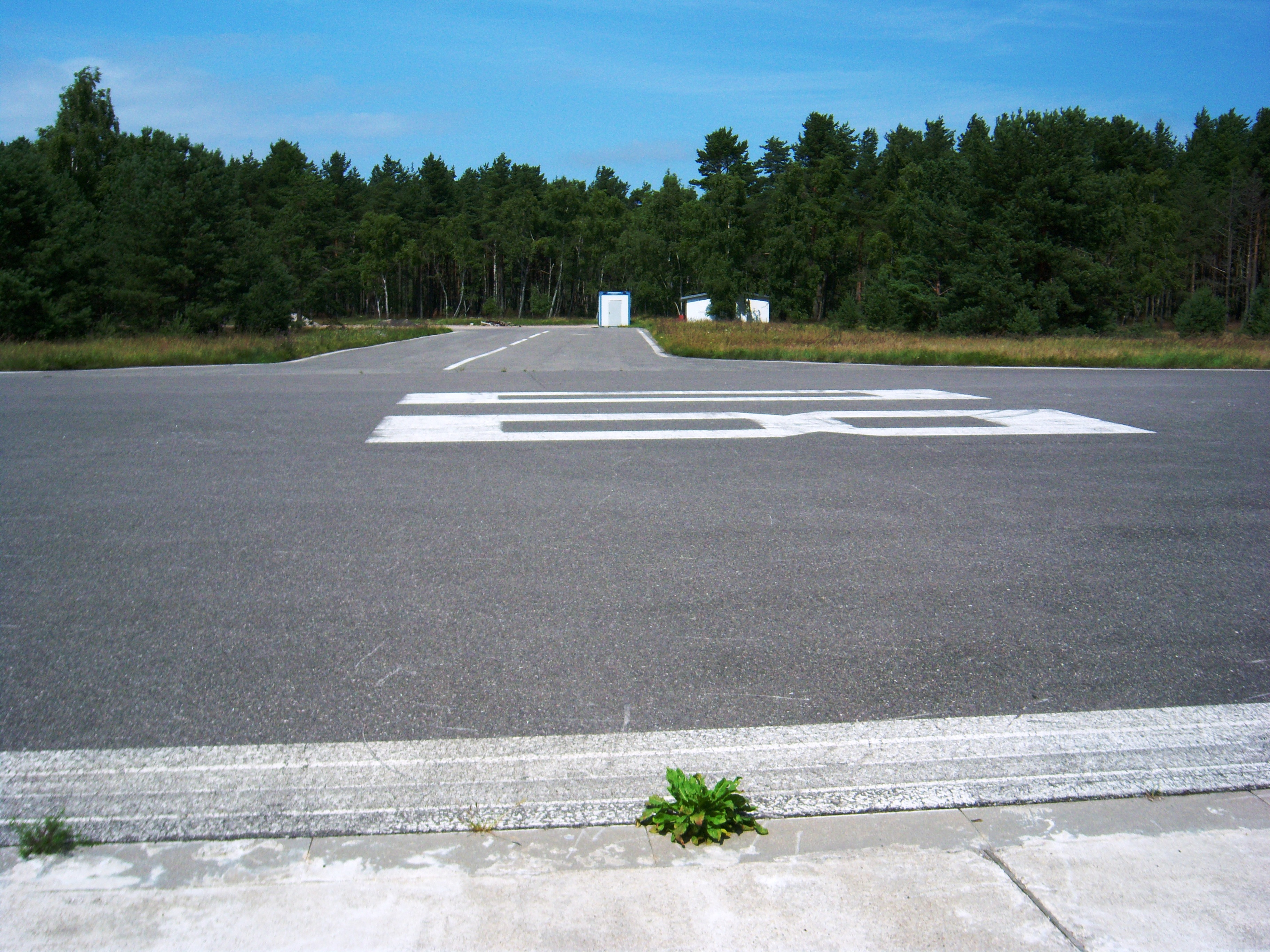 Airfield Nida, Lithuania